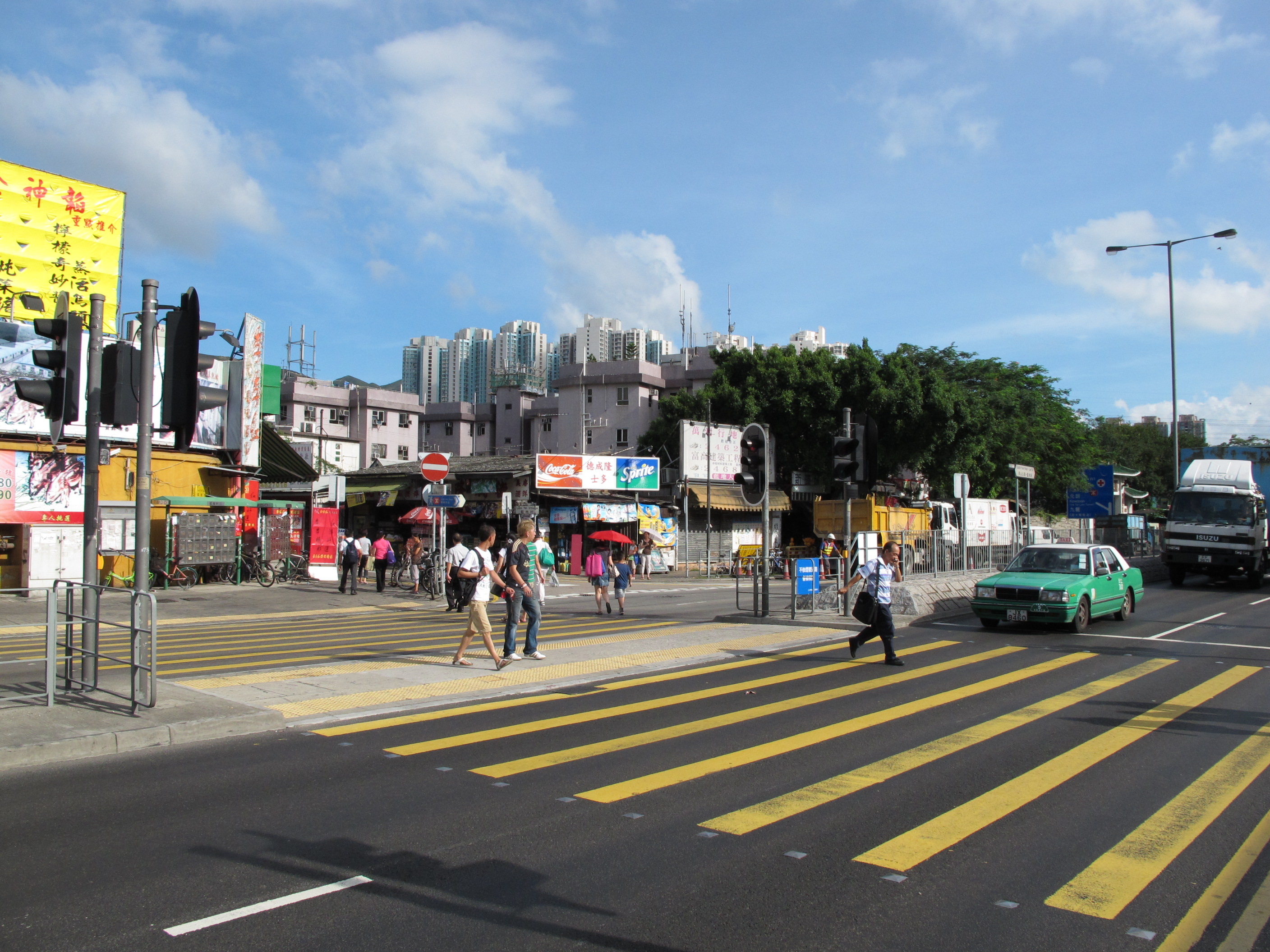 Castle Peak Road Lam Tei Section 青山公路－藍地段